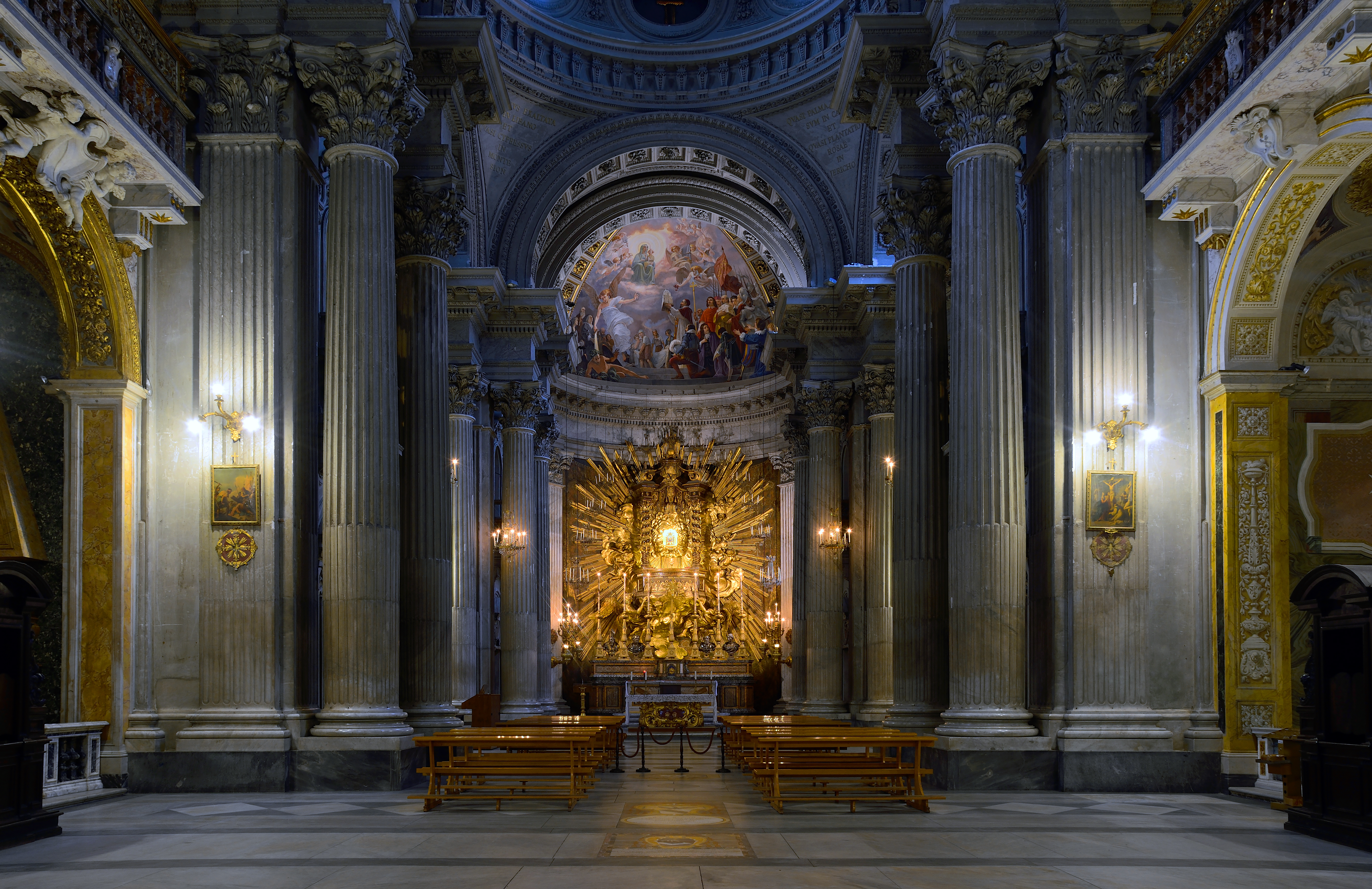 Santa Maria in Campitelli (Rome) - Interior